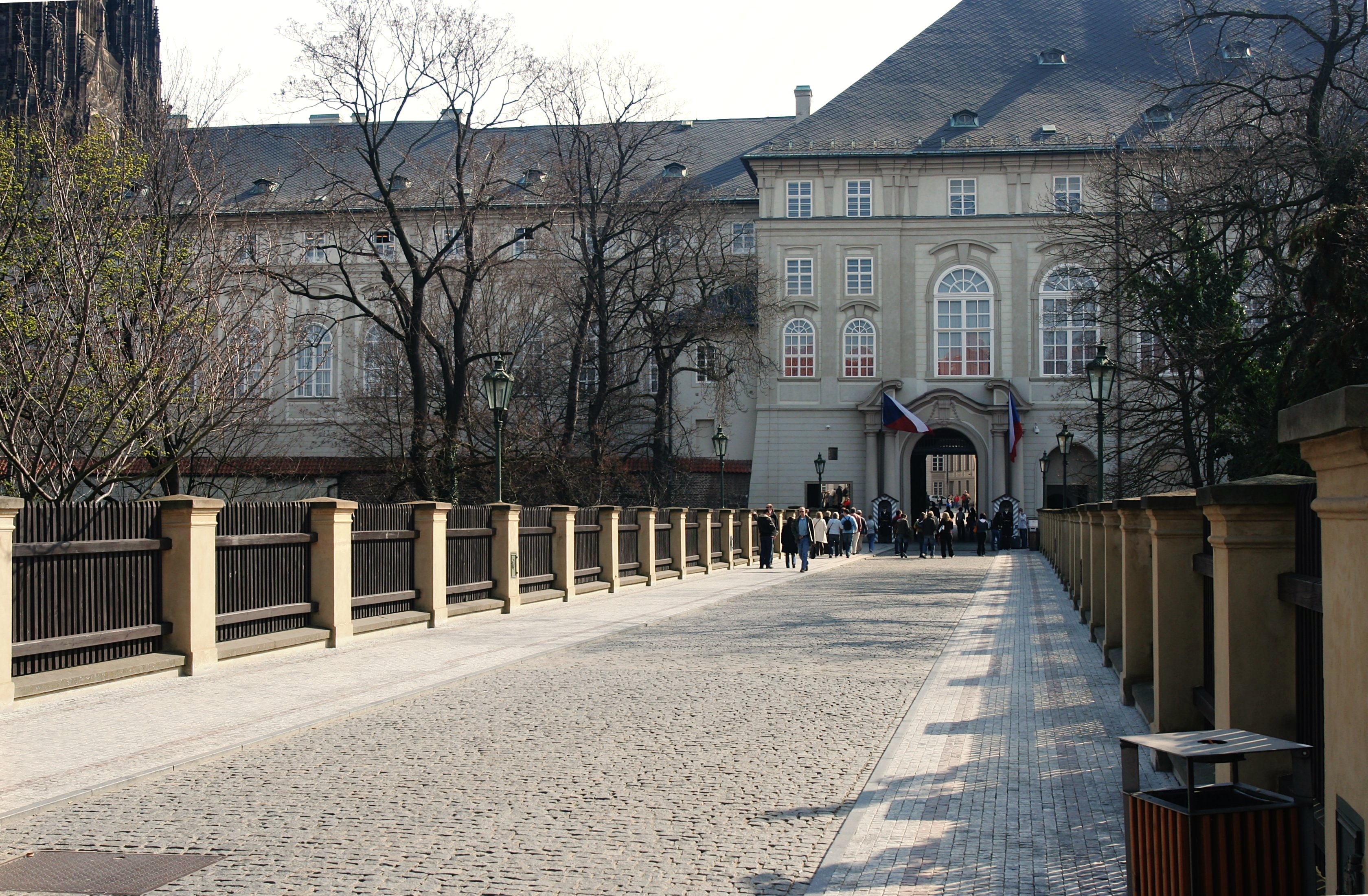 Prašný most, a former bridge at the Prague Castle